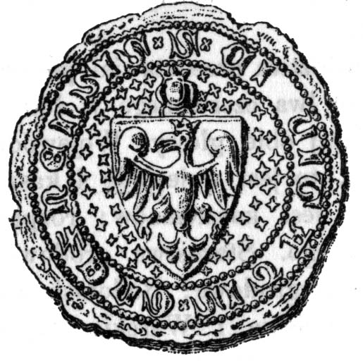 Gniezno seal from 14th century Template:Coat of arms of Gniezno